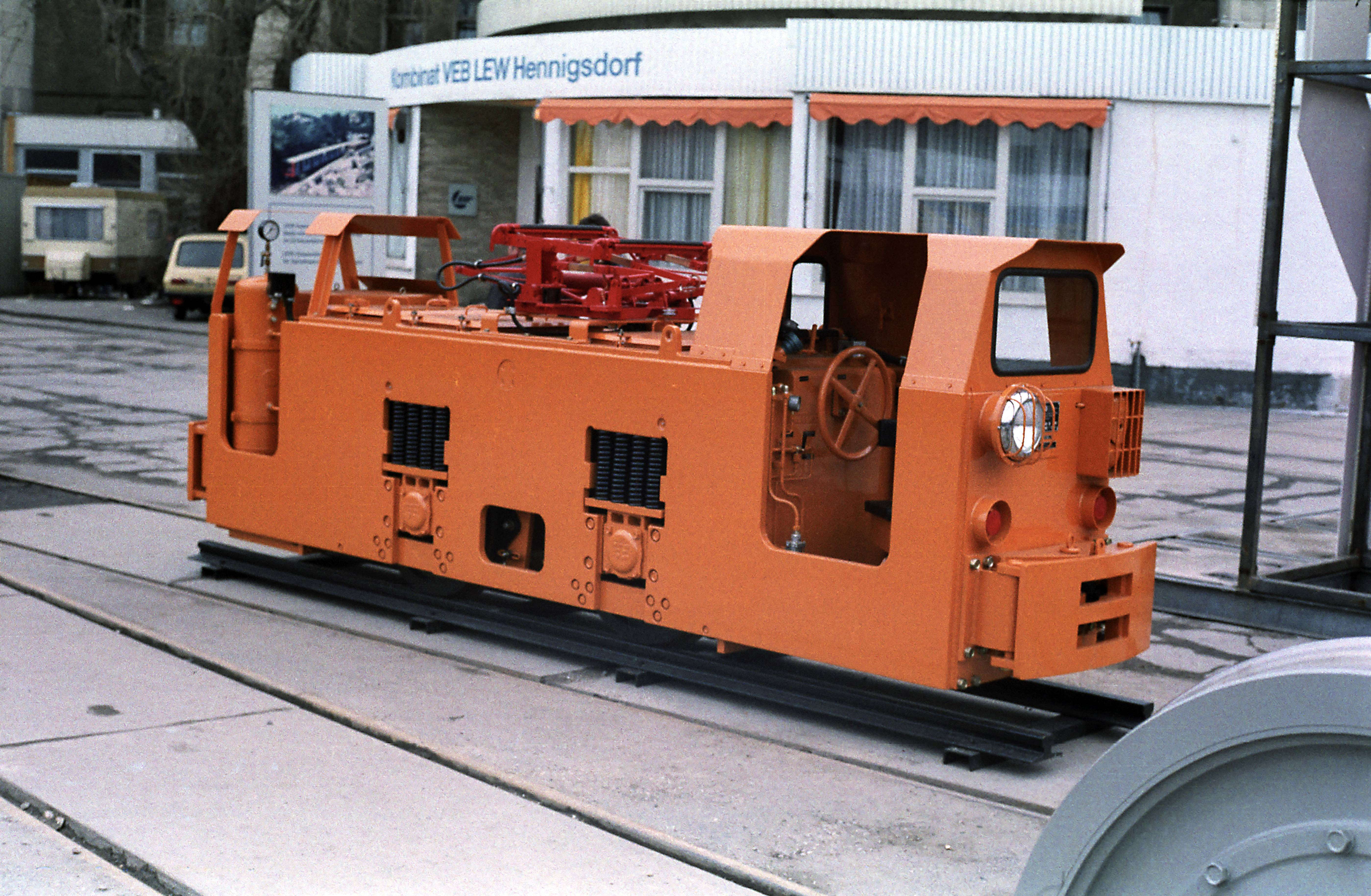 DC mining locomotive type EL 5/08, with top speed of 65 kph. Gauge = 600 mm.